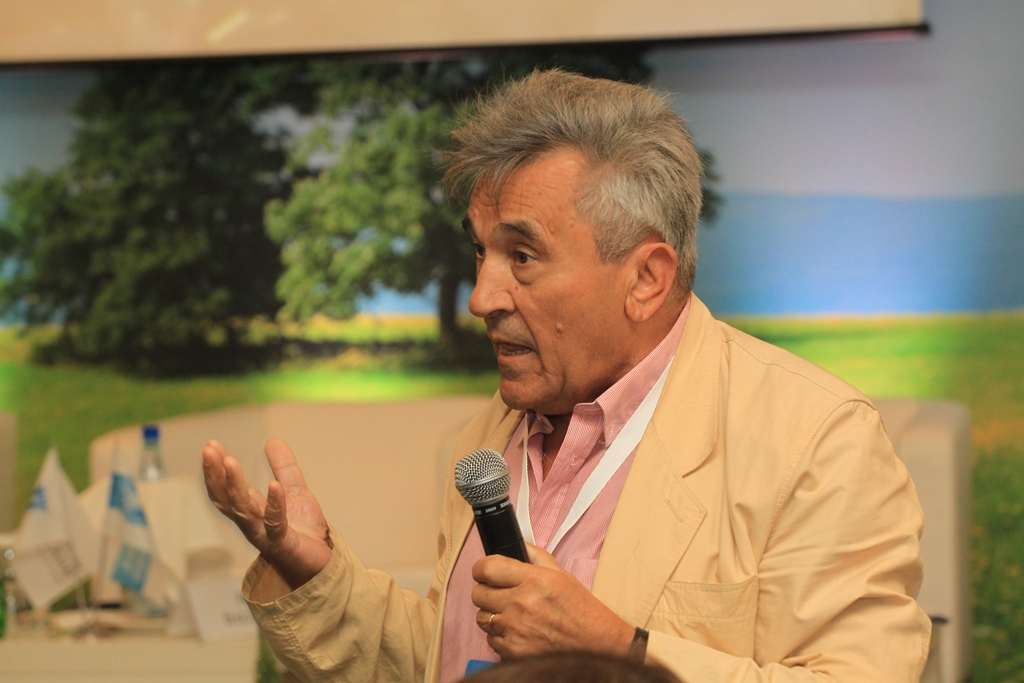 Vasily Simchera at Rhodes Forum 2014 "Preventing World War Through Global Solidarity: 100 Years On"